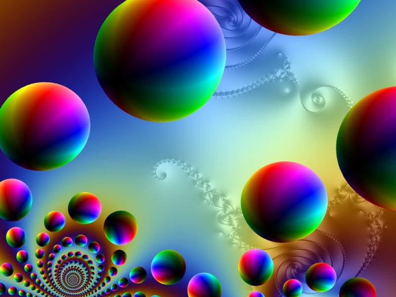 field lines